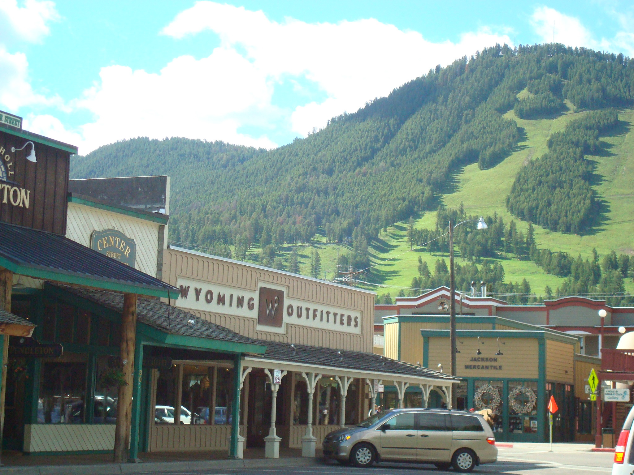 Downtown Jackson, Wyoming. Green ski slopes form the backdrop for summertime Jackson, Wyoming USA., Jackson (Wyoming).